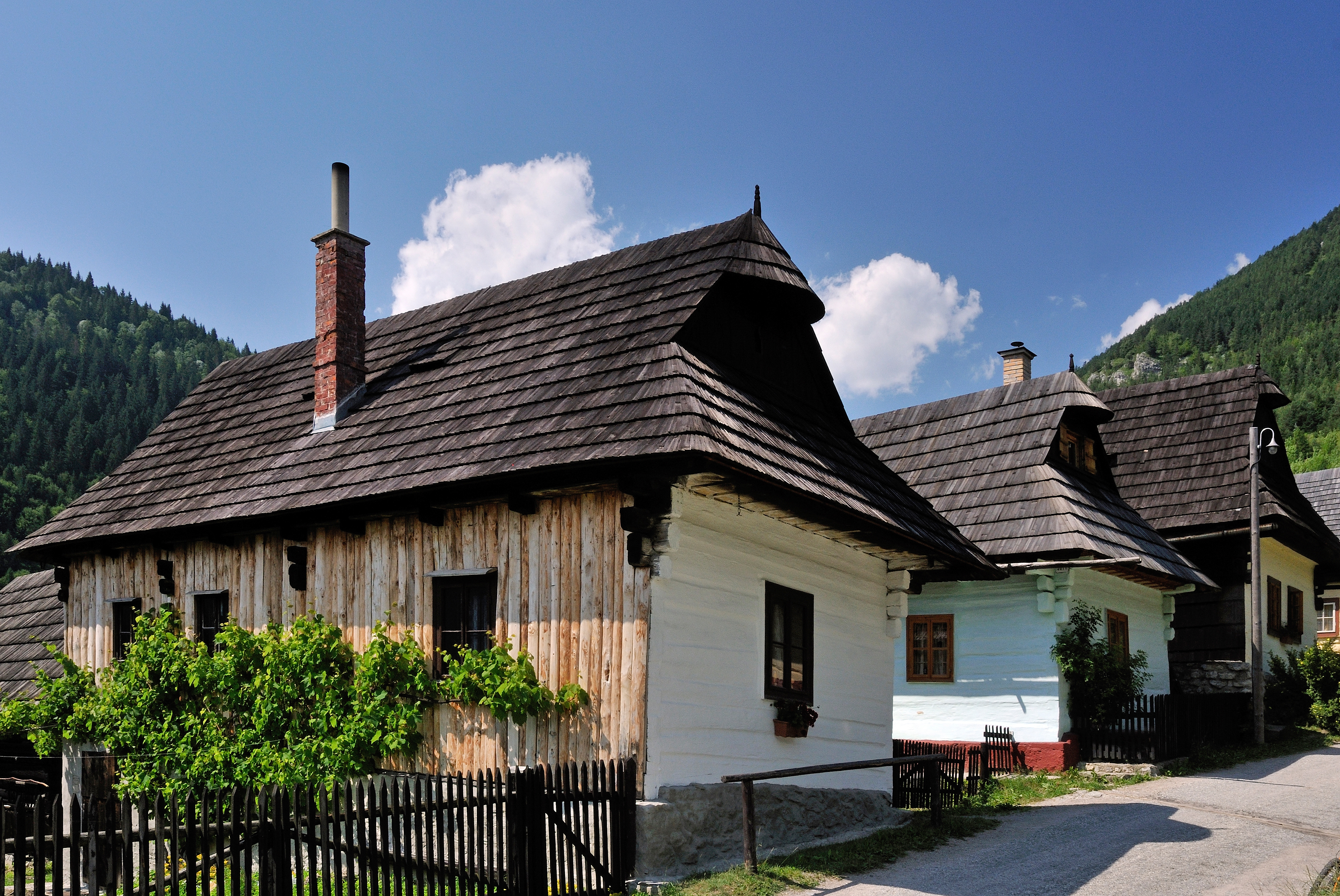 Folk wooden architecture in Vlkolinec settlement - Slovakia